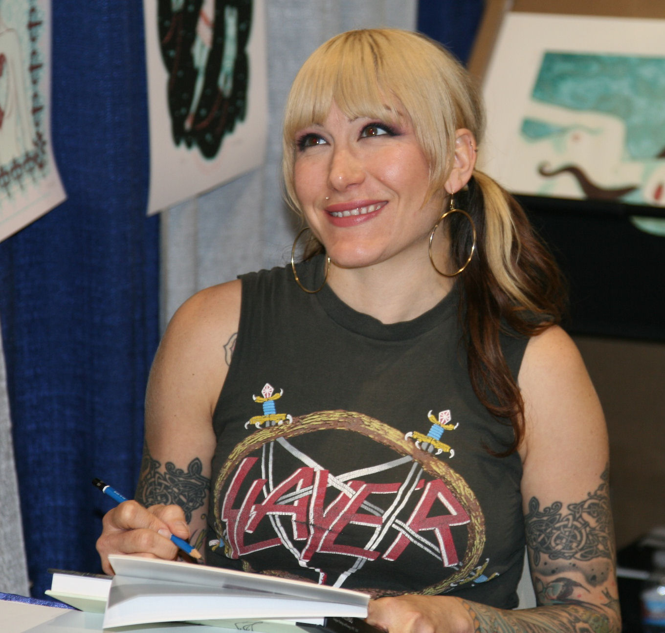 Tara McPherson from